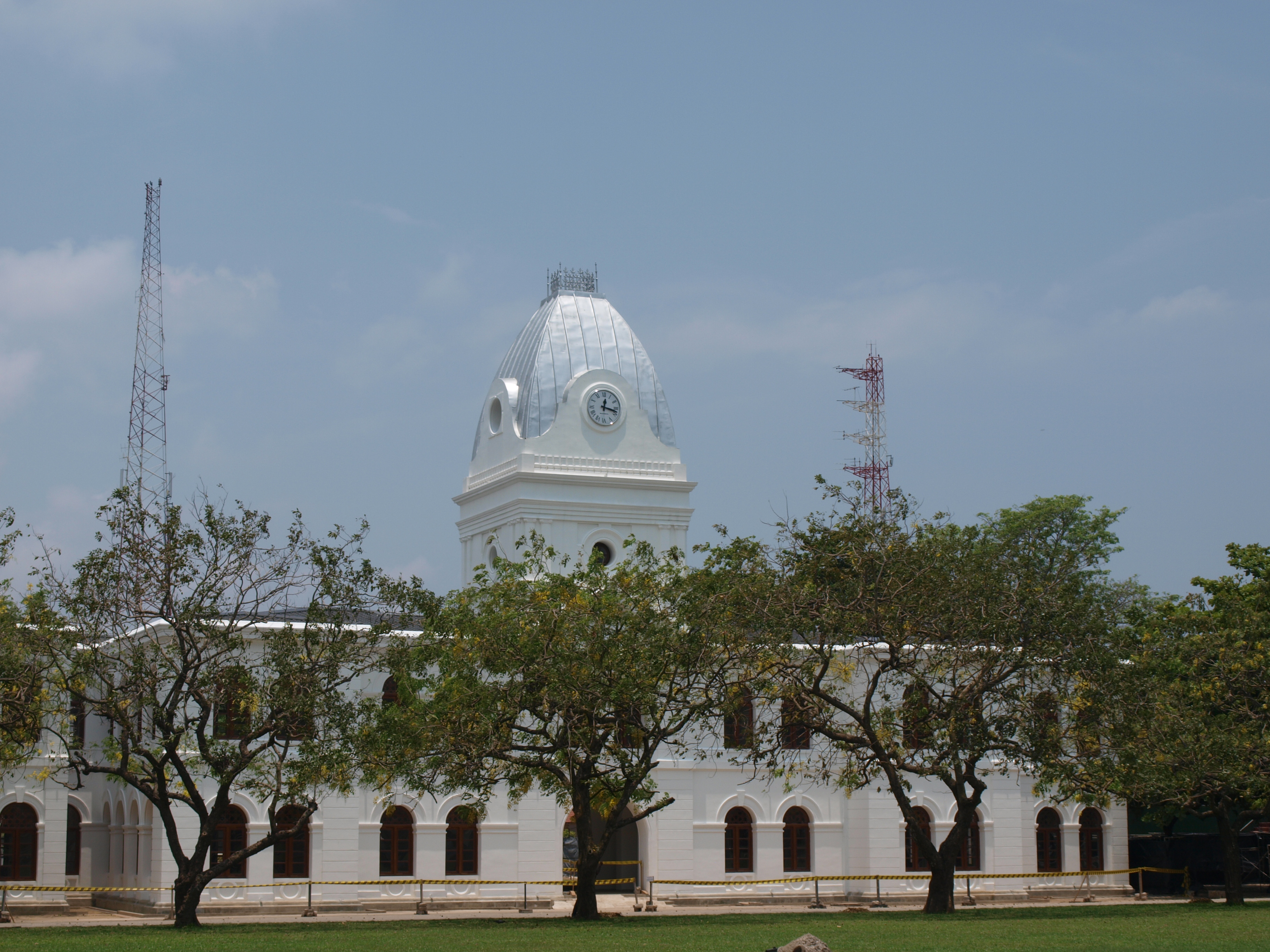 Photograph of the Arcade at Independence Square Colombo 7.